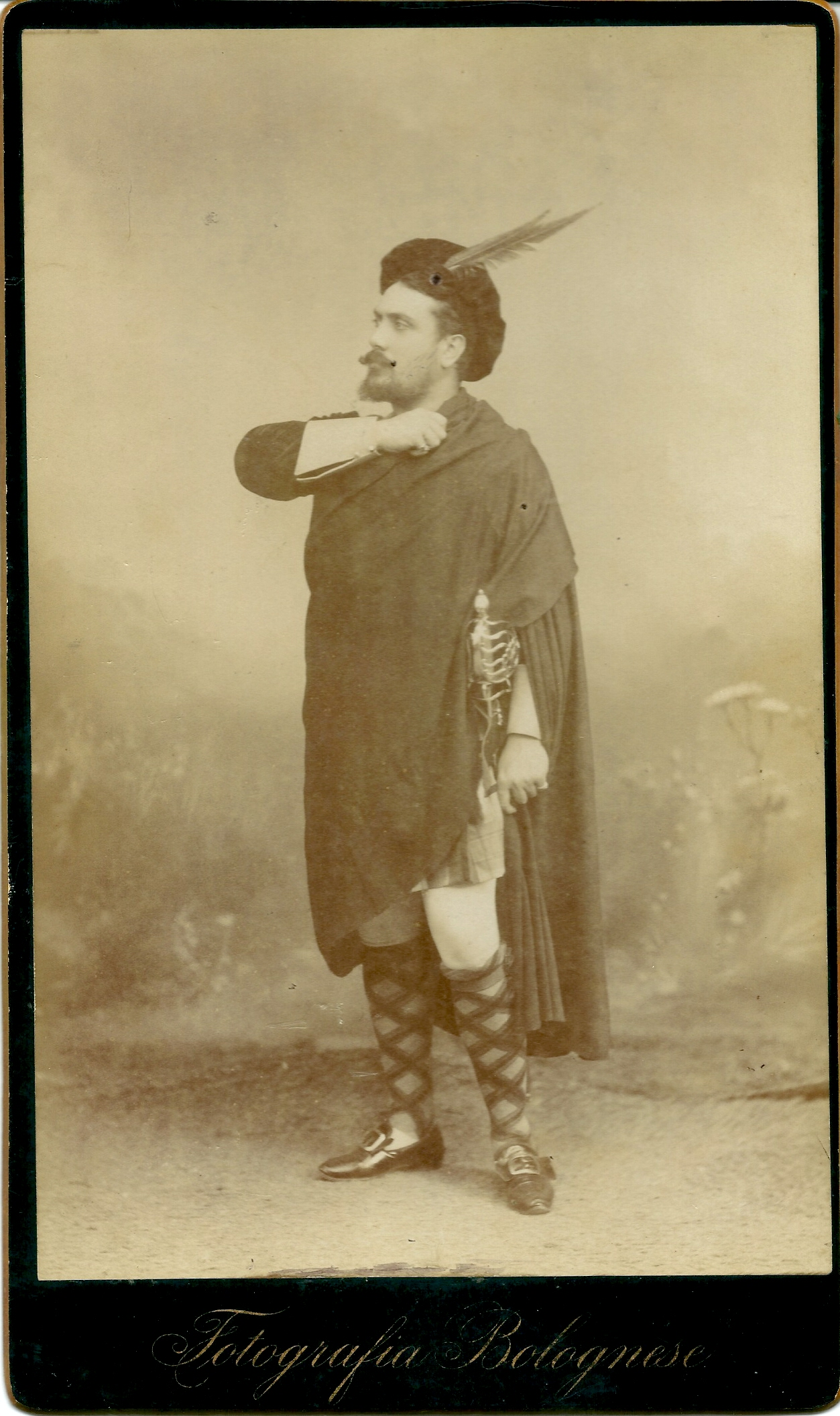 Alfonso Garulli as Arnold "William Tell"